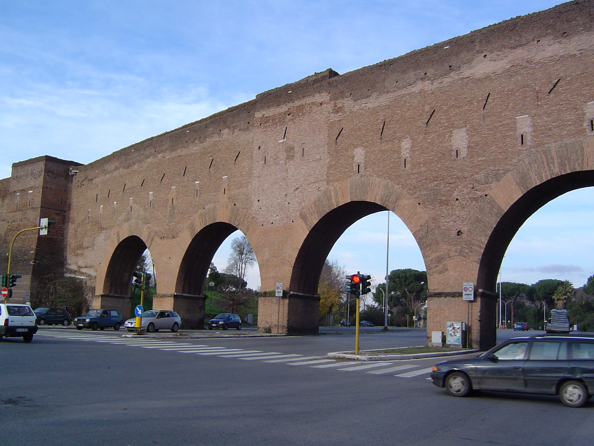 Porta Ardeatina with modern archways Rome, Italy. Made by Joris van Rooden, the Netherlands